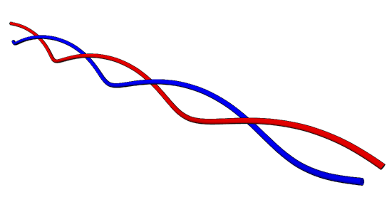 Edit of Image:Double helix.jpg by User:Honeymane